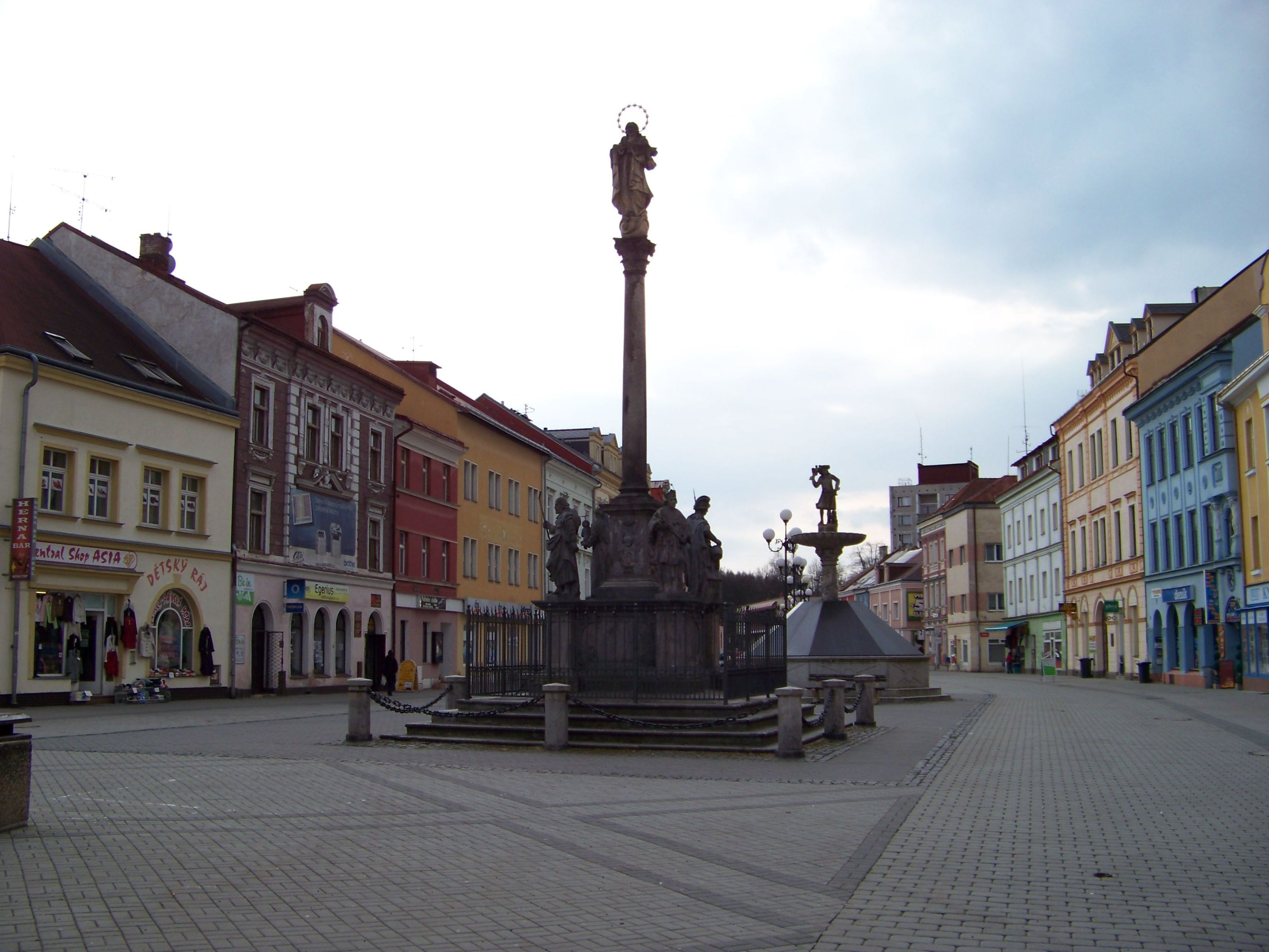 Sokolov, Sokolov District, Karlovy Vary Region, the Czech Republic. The Old Square, a Maria column and a fountain.